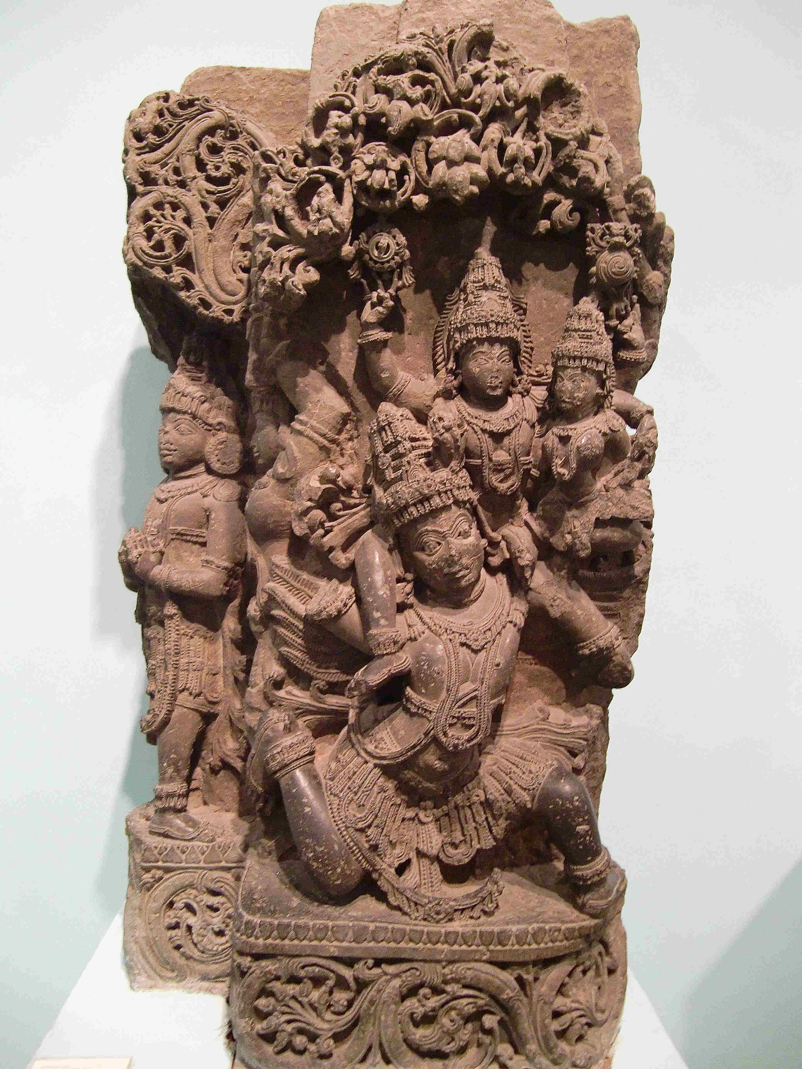 Vishnu and Lakshmi on the shoulder of Garuda, National Museum of INDIA